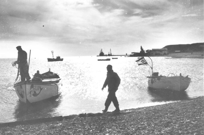 The kinneret' 1950, Geography of Israel